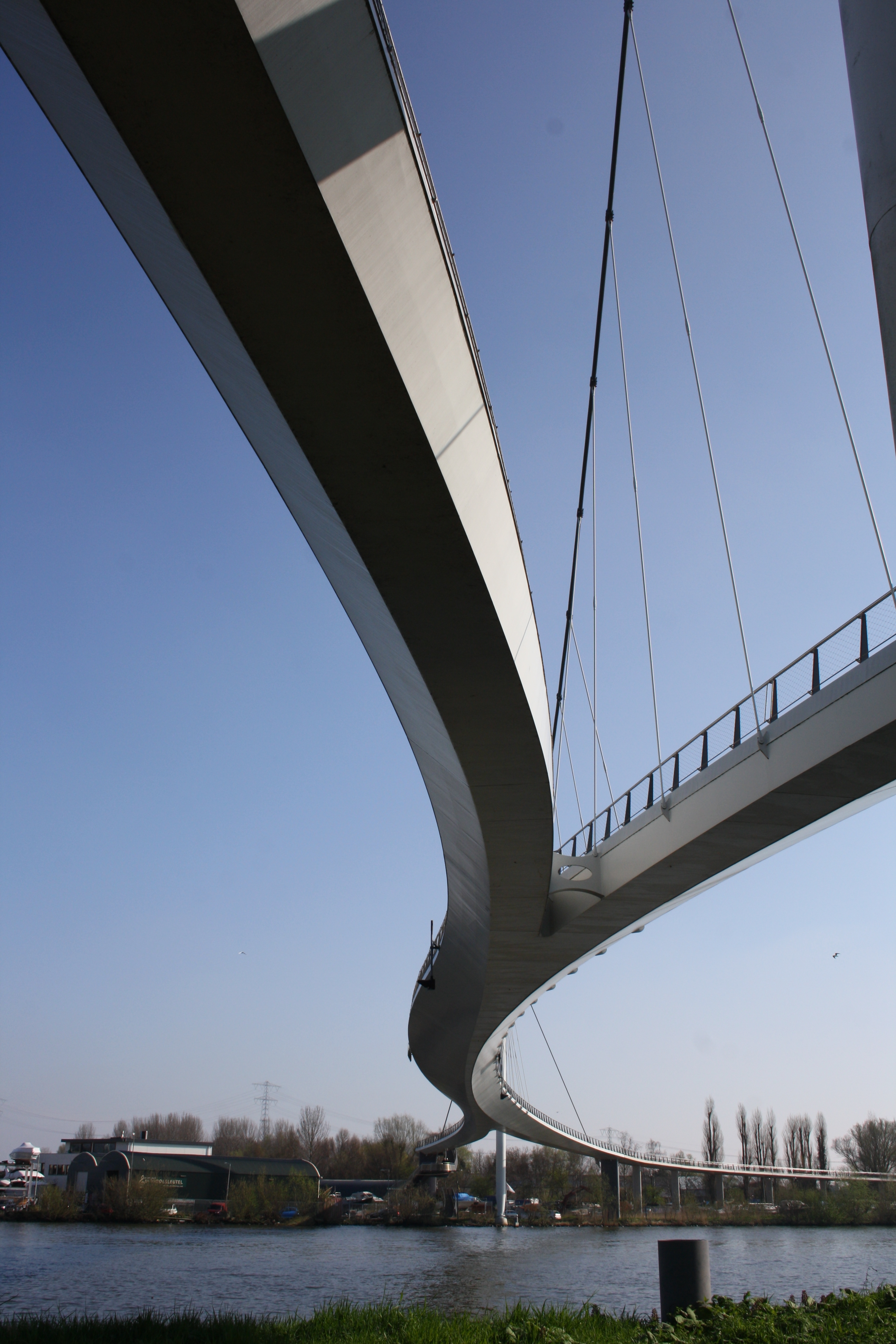 Amsterodam, bridge. From cycle path to Naarden